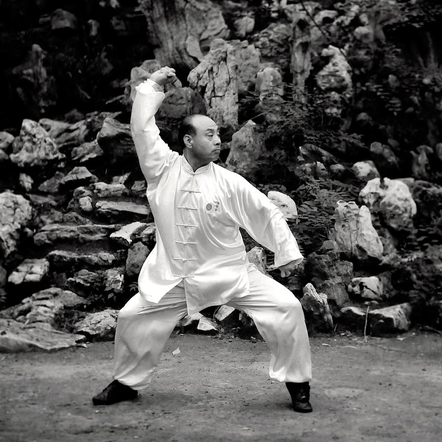 master Wang Anlin Wenshengquan KungFu